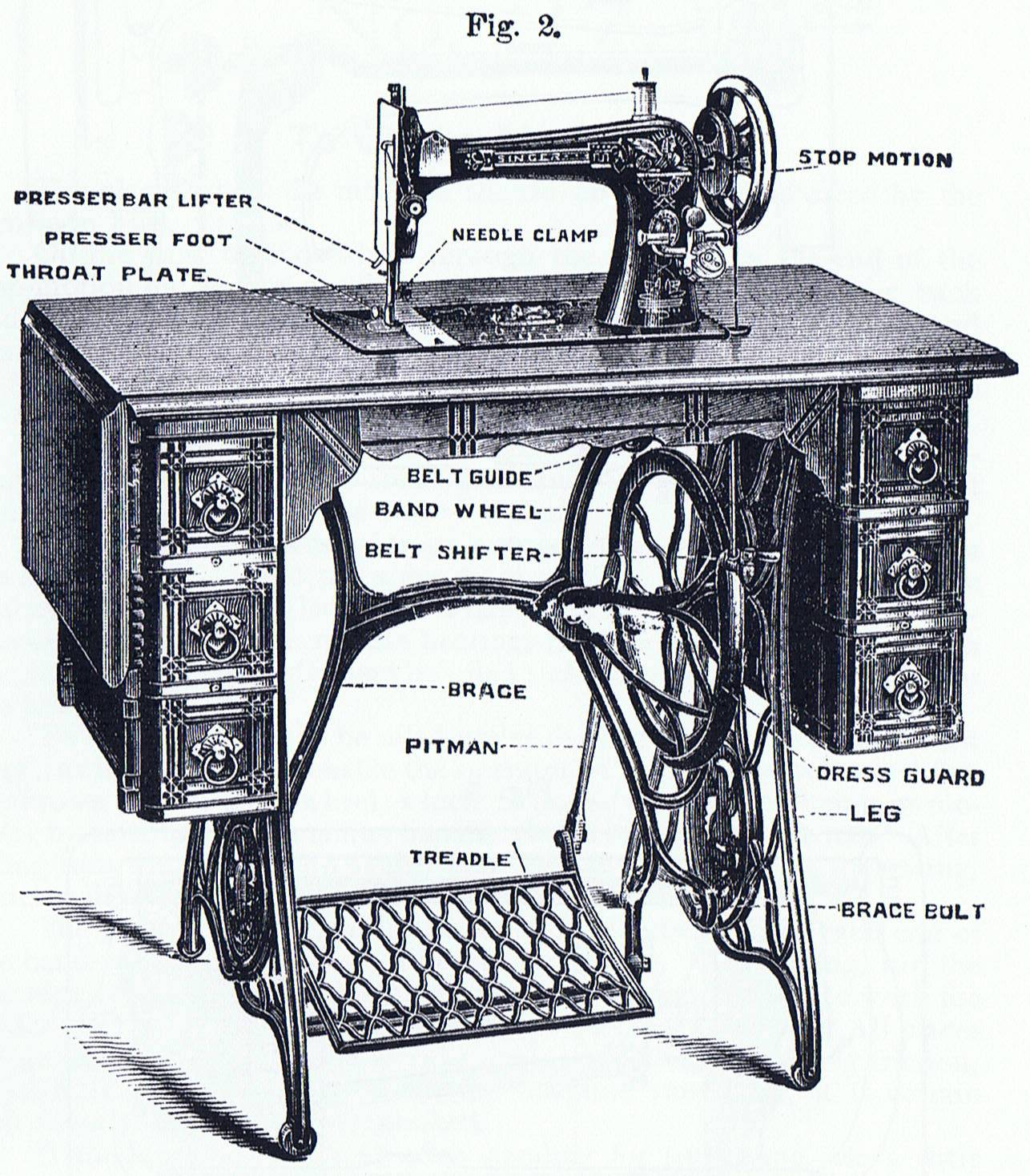 Singer model 27, drawing of treadle table from instruction manual